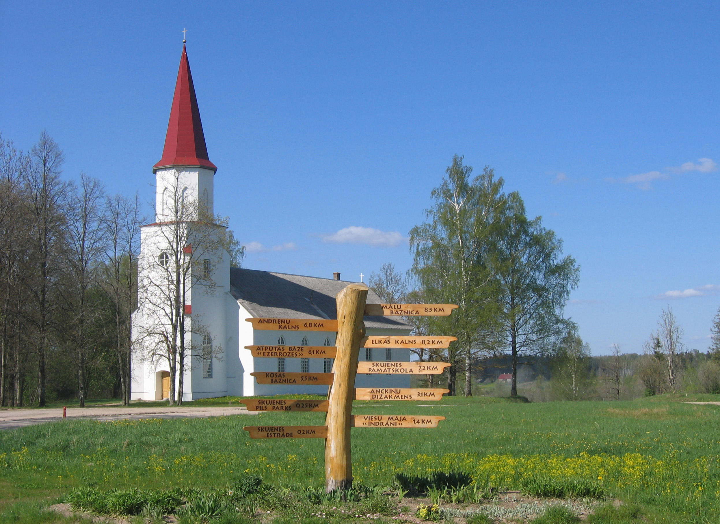 Skujene lutheran churchLatviešu: Skujenes luterāņu baznīca